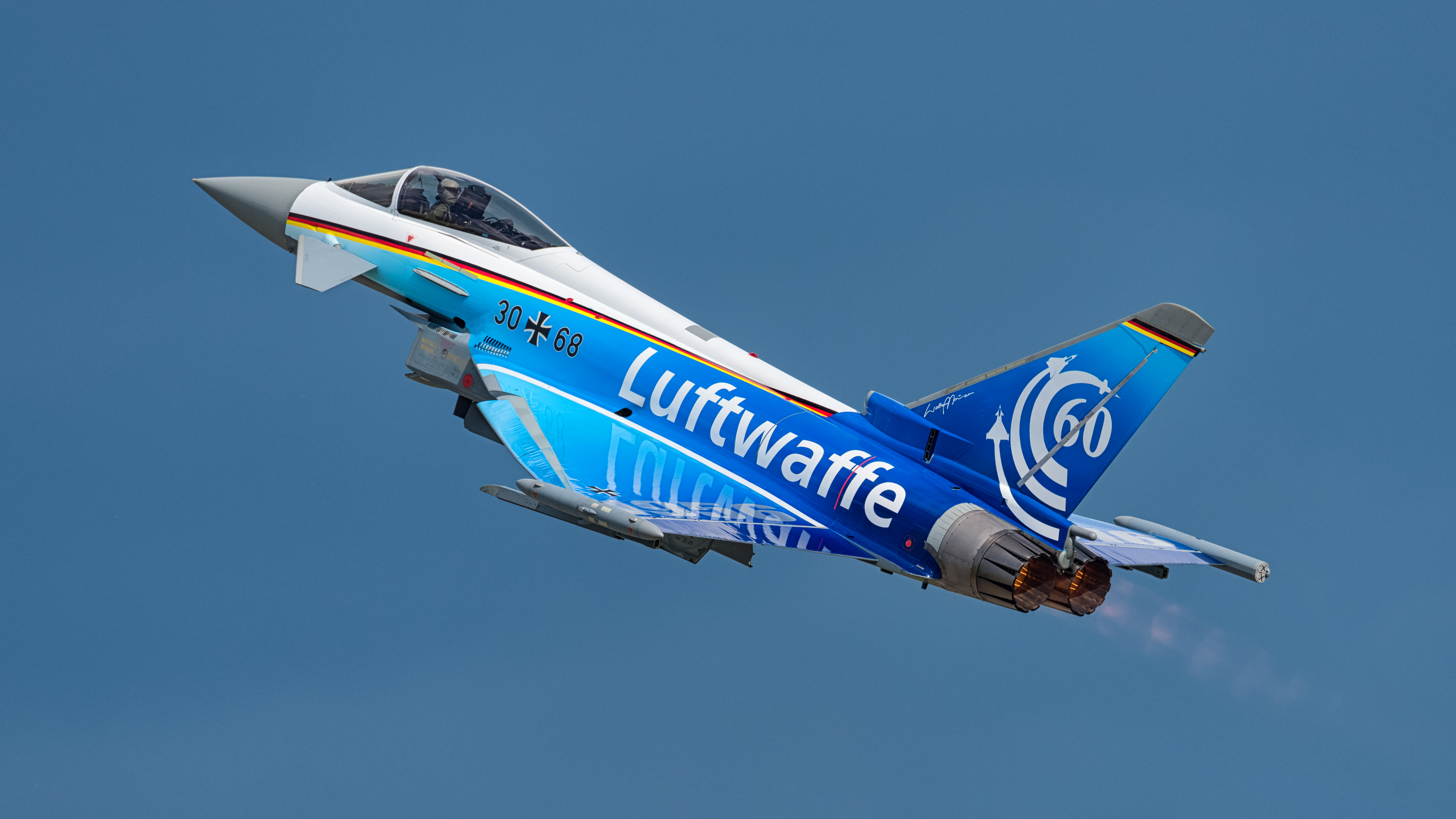 Eurofighter Typhoon EF2000 (reg. 30+68) of the German Air Force (Deutsche Luftwaffe, Taktisches Luftwaffengeschwader 74) at ILA Berlin Air Show 2016.